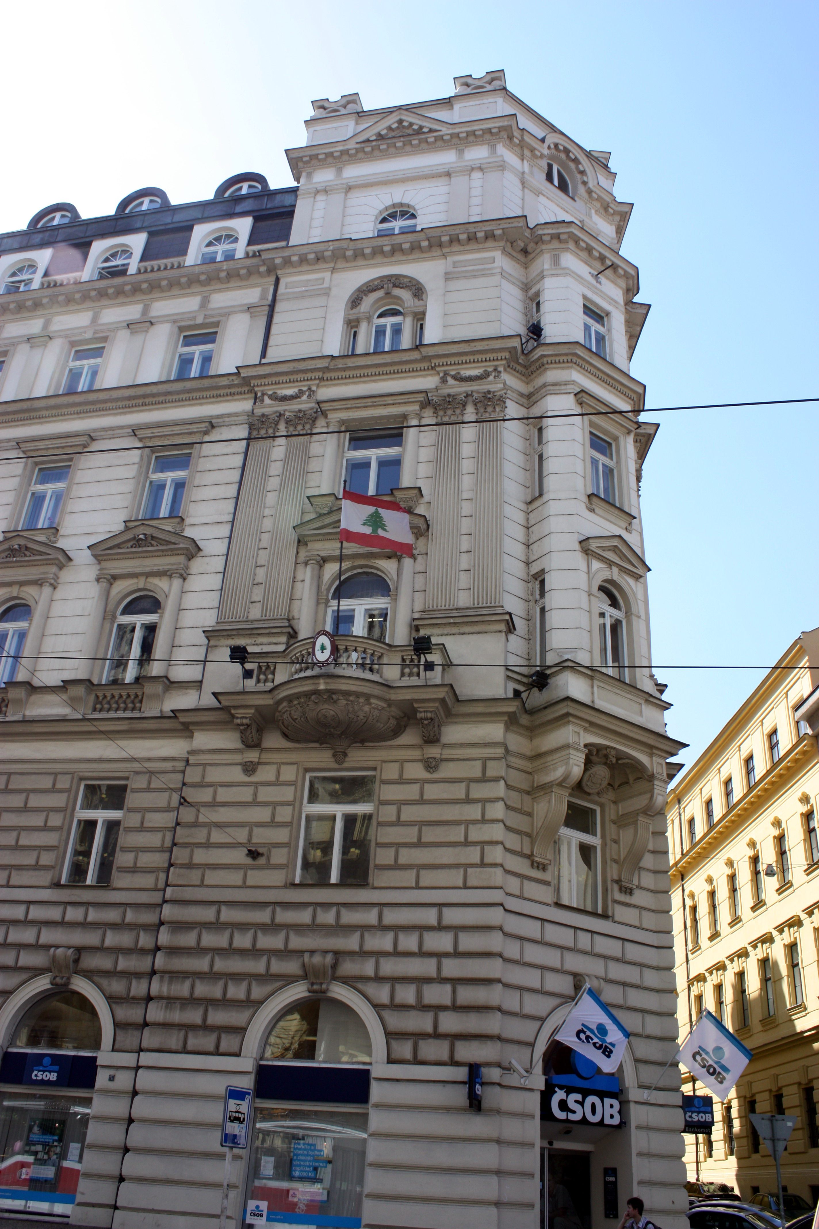 Lazarská 11/6, Prague 1 – Nové Město, Embassy of Lebanon (Chancery) in Prague.